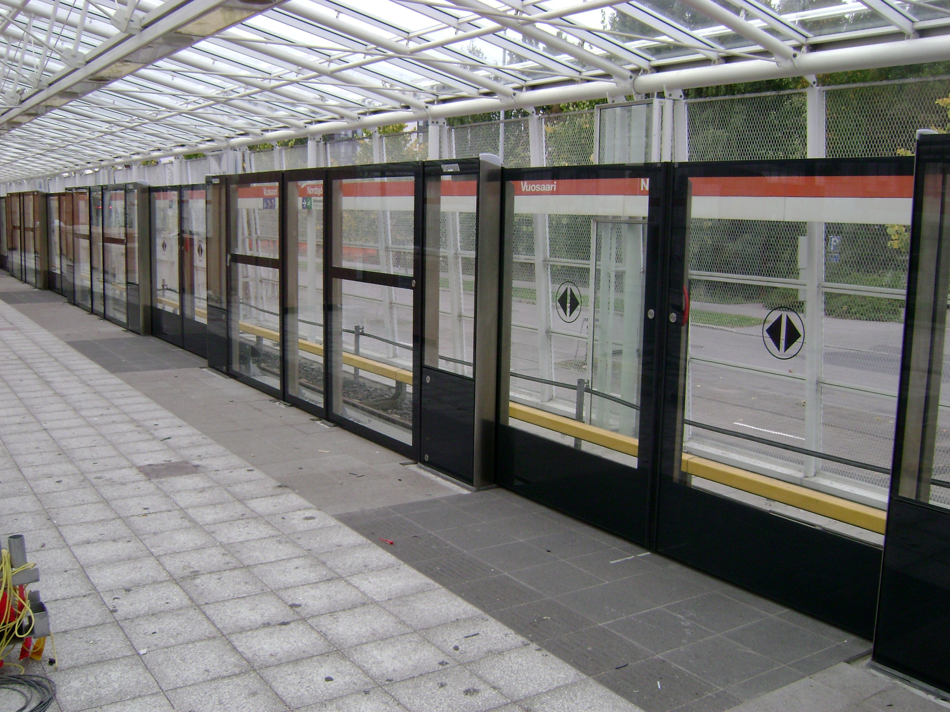 New platform screen doors at Vuosaari metro station, Helsinki.